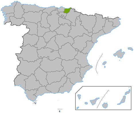 Location of the province of Guipúzcoa, in Spain. Basado en: ProvPont.jpg Source: Designed by Satesclop. Original picture, designed by Sobreira.